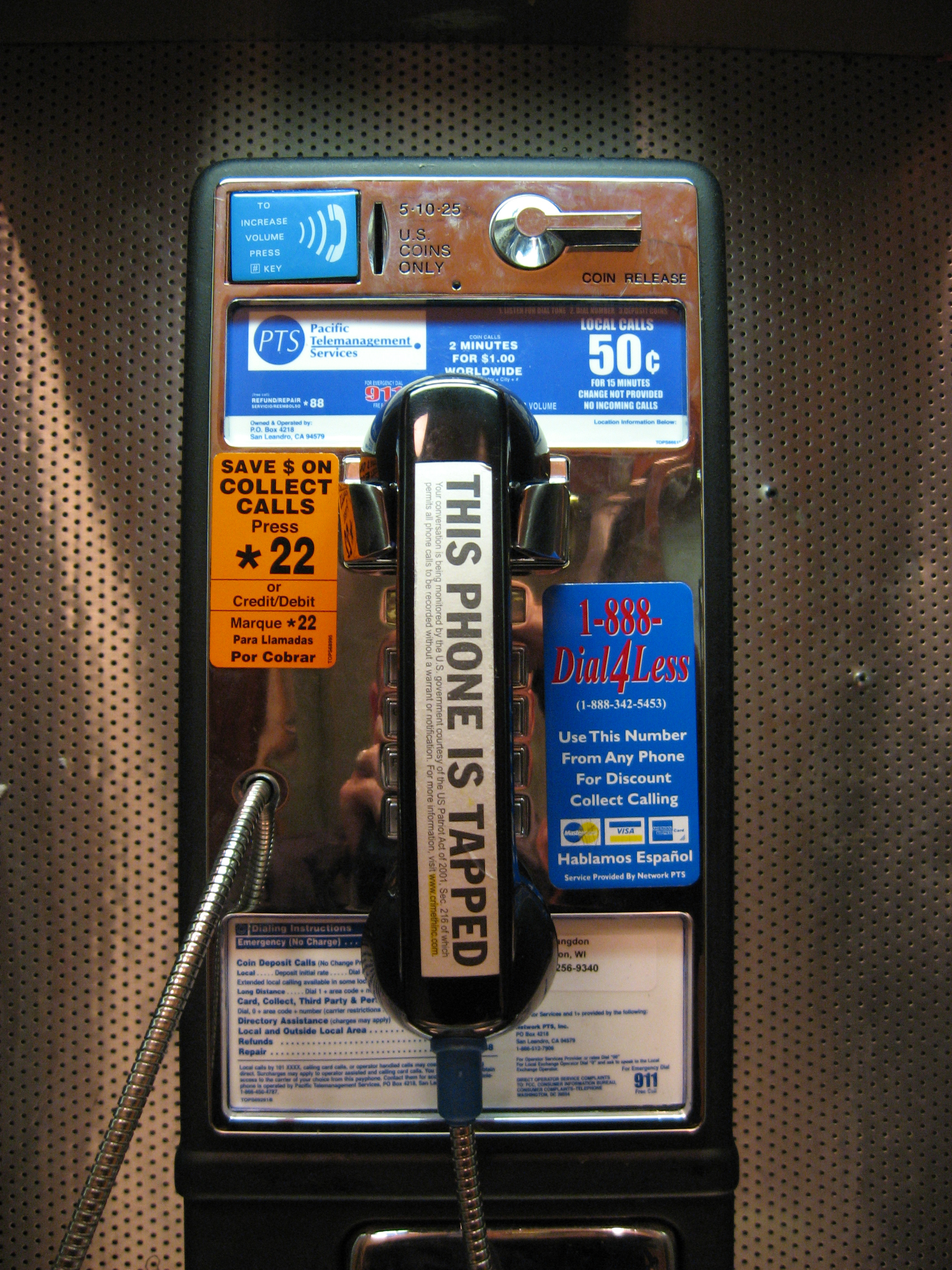 Your conversation is being monitored by the U.S. Government courtesy of the US Patriot Act of 2001, Sec. 216 of which permits all phone calls to be recorded without a warrant or notification. For more information, visit